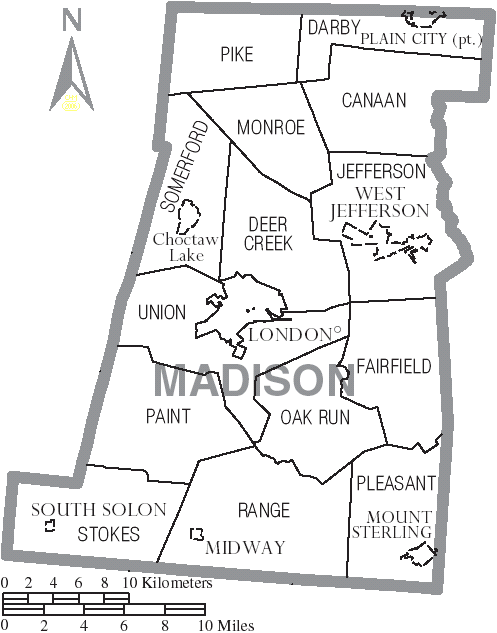 Map of Madison County, Ohio, United States with township and municipal boundaries